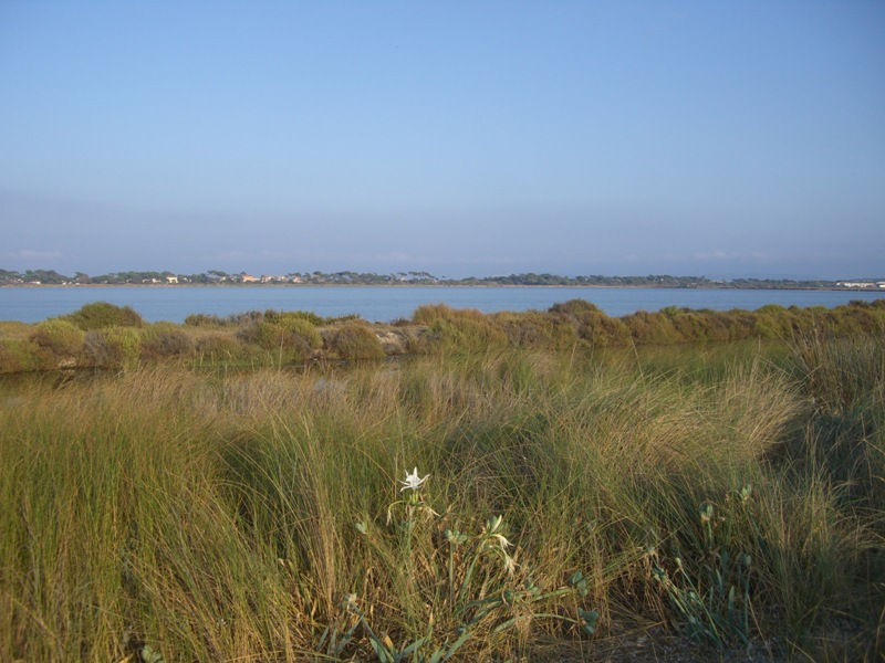 Temporary lake close to the Pesquier Inlet, Giens Peninsula (Hyères - Provence)